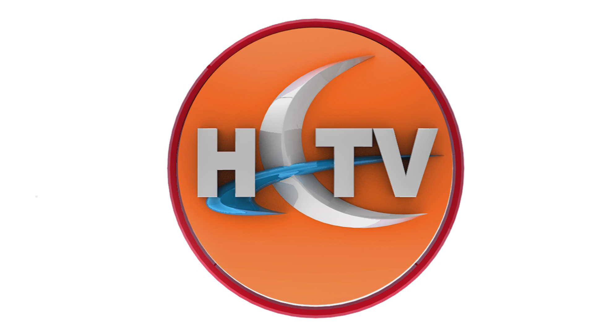 Horn Cable Tv Logo